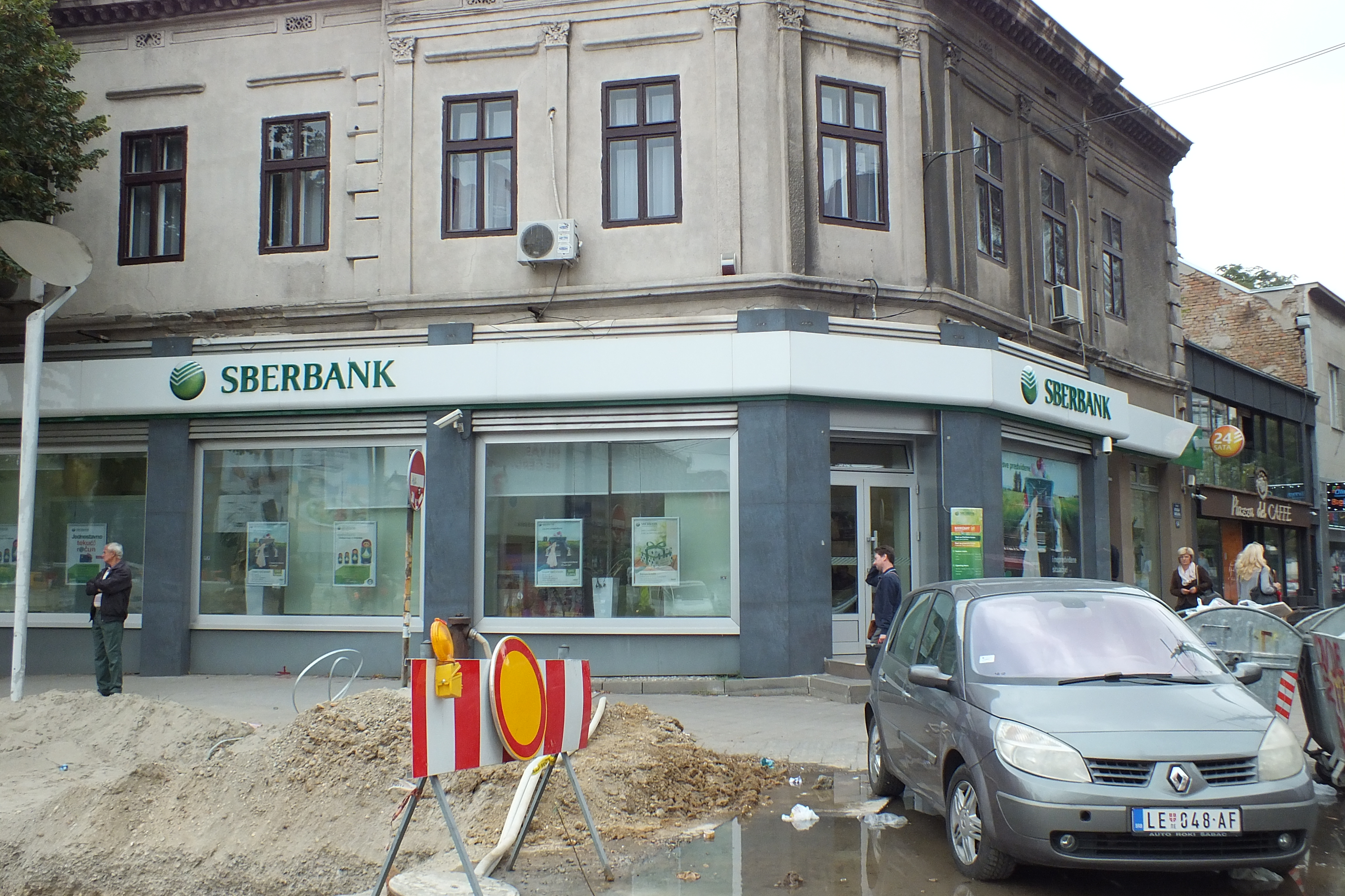 Sberbank in Belgrade, Kralja Milana street, 64 (not far from Slavija Square).